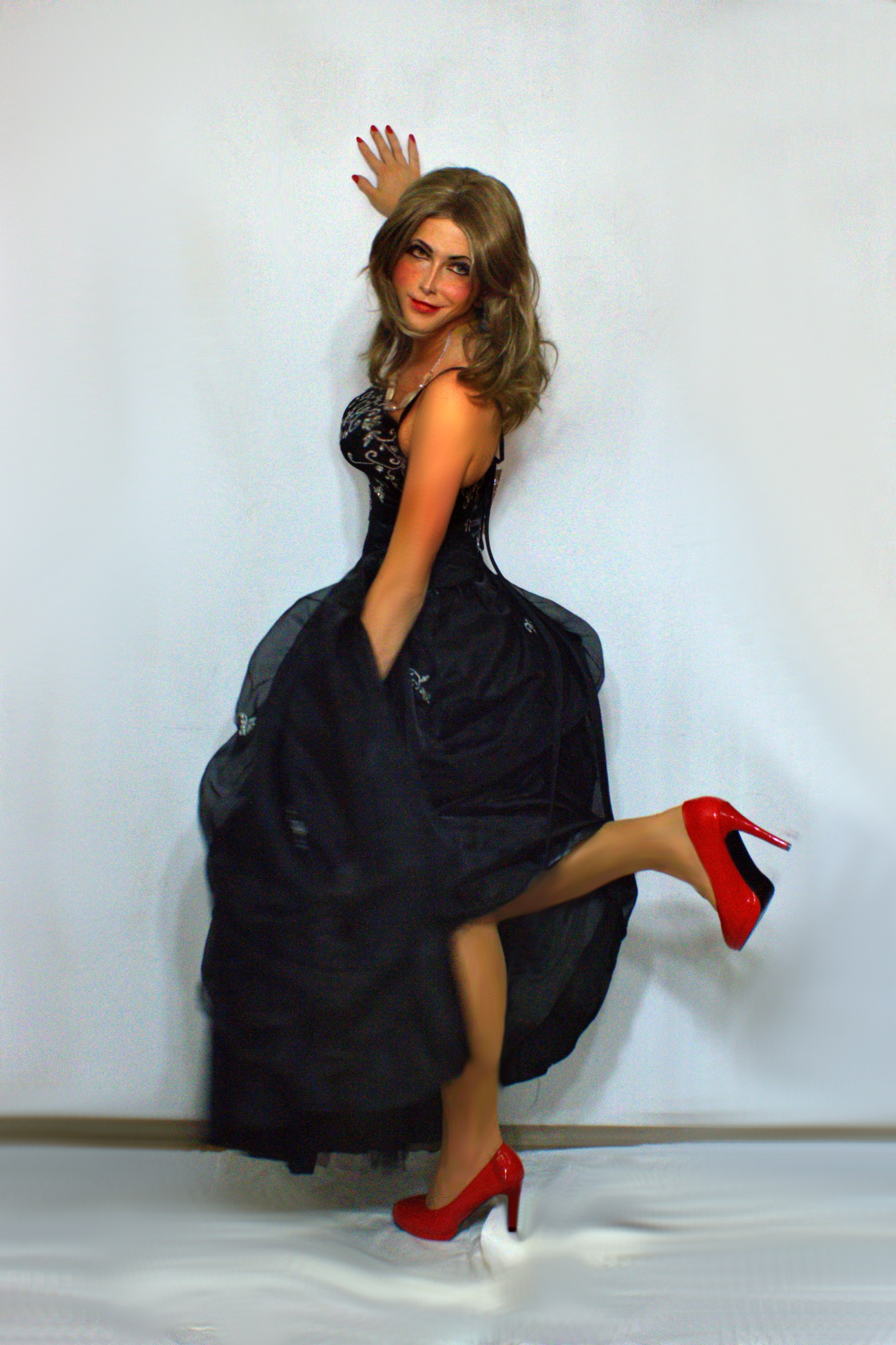 Crossdresser from UK in black, ball gown with tight corset. Wearing beige tights and red high heels. The face is covered with a strong make-up.